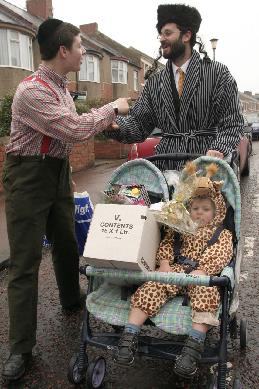 Purim greetings in Gateshead on Purim.